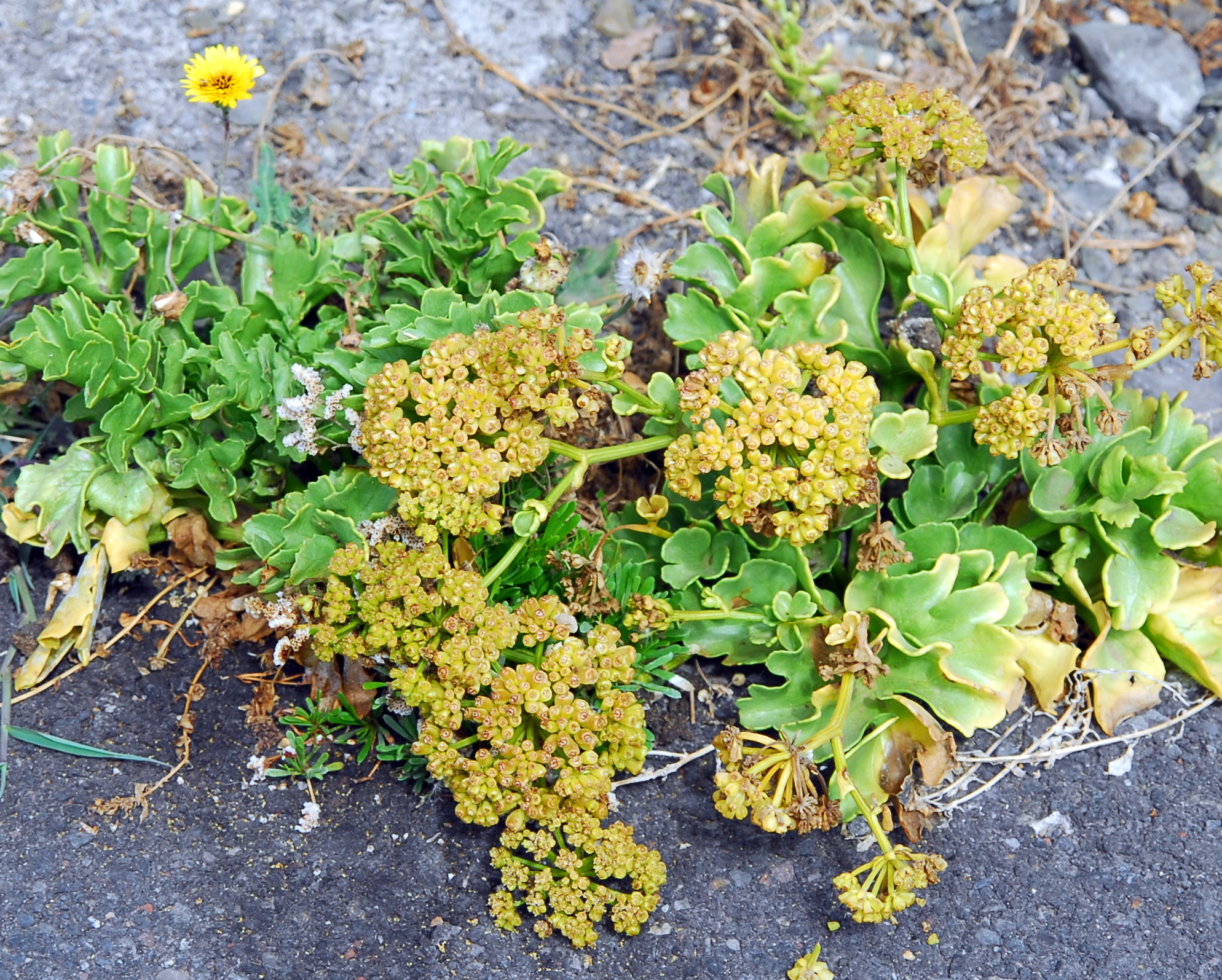 Astydamia latifolia (?) - near Villahermoso, La Gomera